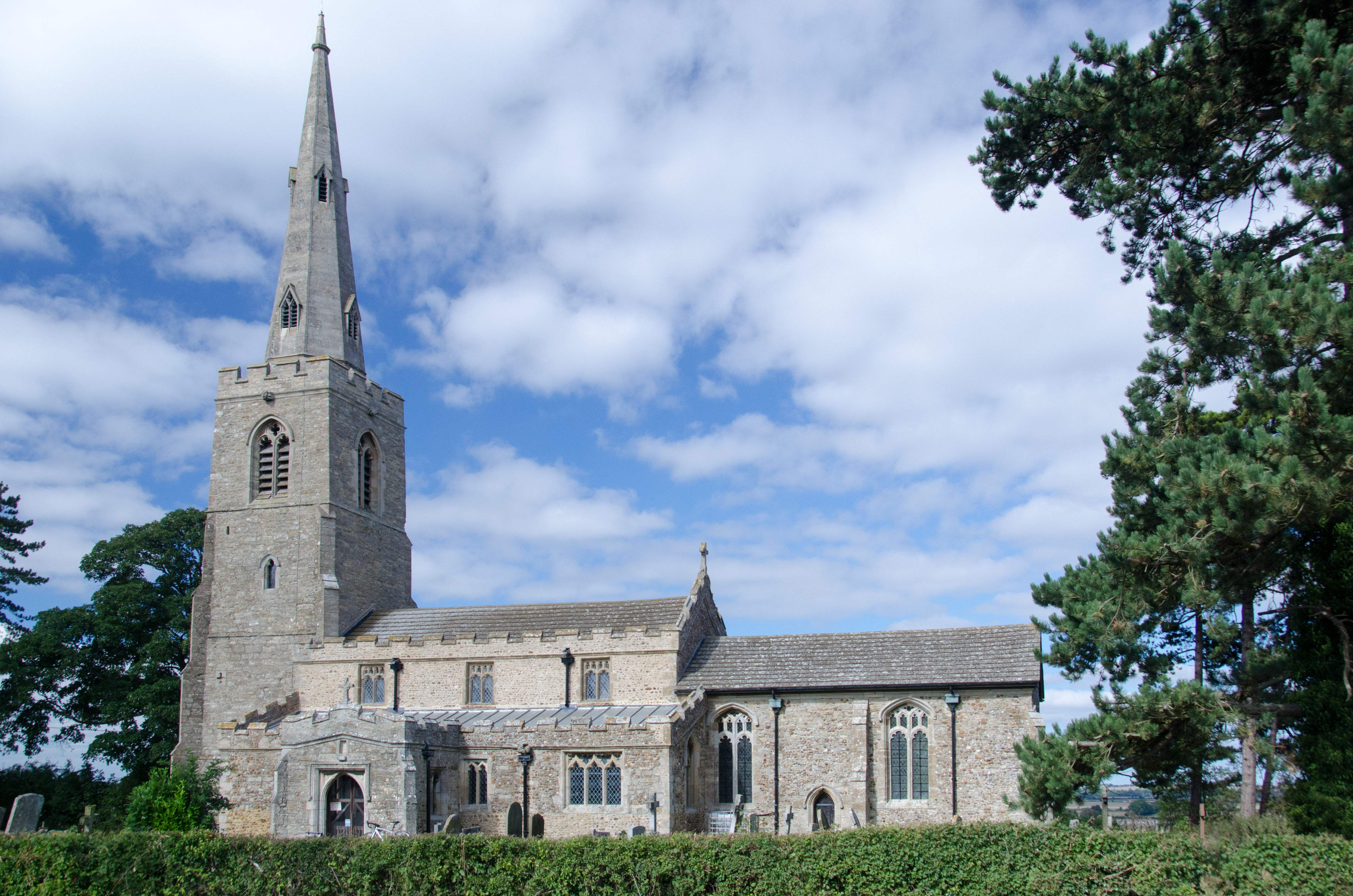 All Saints parish church, Little Staughton, Bedfordshire, seen from the south